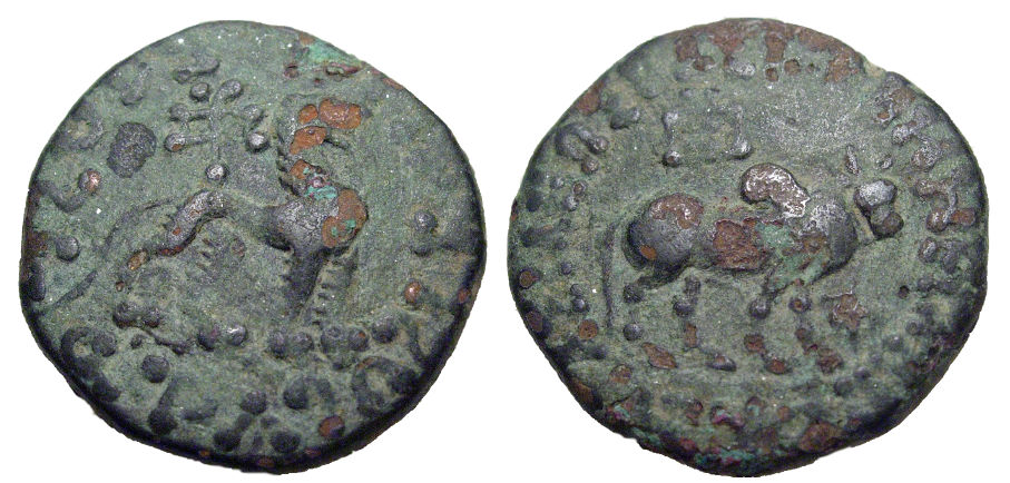 Indo Scythian Bronze Coin from reign of Azes I